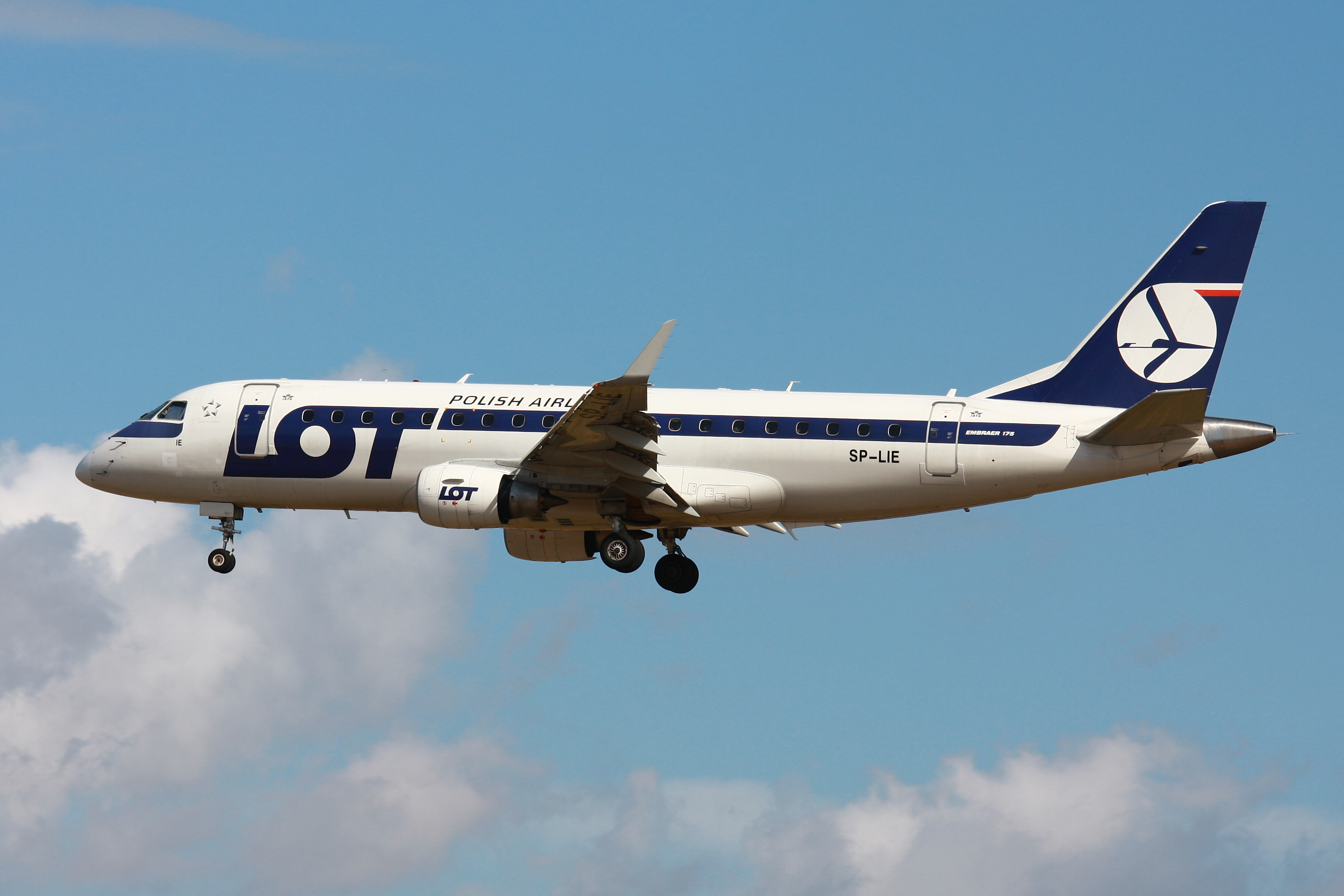 A Embraer 175 of LOT landing at Frankfurt Airport